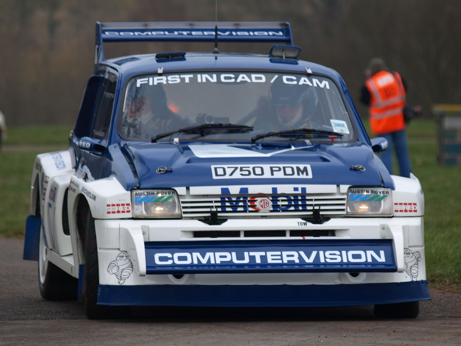 David Llewellin's MG Metro 6R4 driven at Race Retro 2008, the International Historic Motorsport Show, at Stoneleigh Park, Coventry, England.